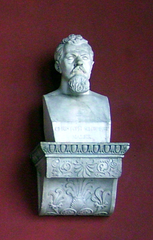 Bust of Christoph Schwartz at Ruhmeshalle ("Hall of fame"), München, Germany. Picture taken by myself: Dominik Hundhammer, München, 27 March 2006.